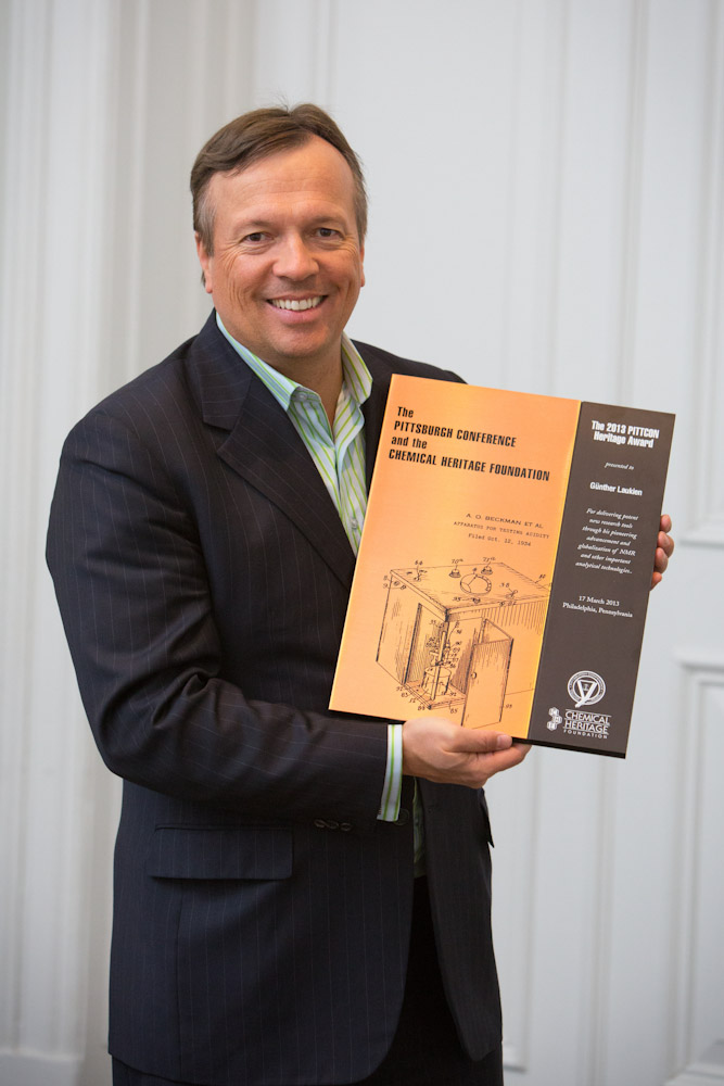 Photograph of Frank Laukien, president and CEO of Bruker Corporation, receiving the 2013 Pittcon Heritage Award on behalf of his father Günther Laukien (1924–1997).[1] The award was jointly sponsored by the Pittsburgh Conference on Analytical Chemistry and Applied Spectroscopy (Pittcon) and the Chemical Heritage Foundation.